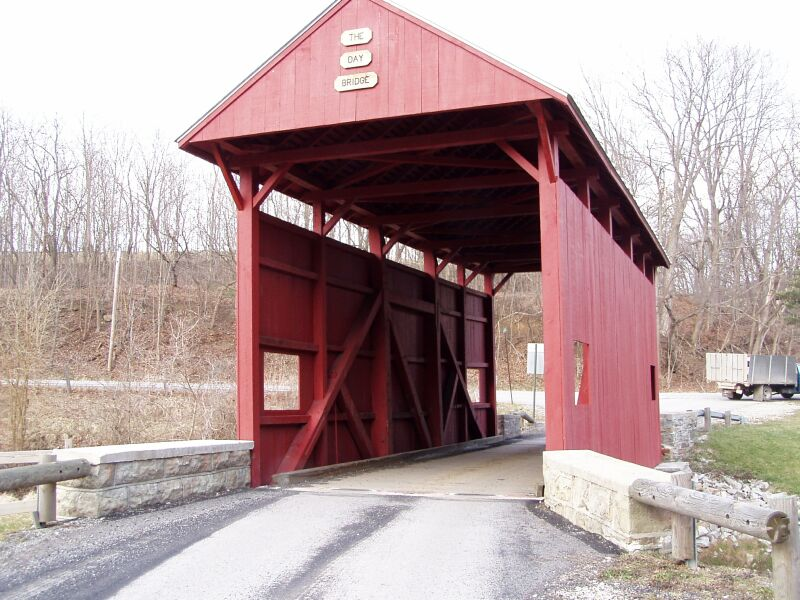 Day Bridge, Off Prosperity Pike, Southwestern PA